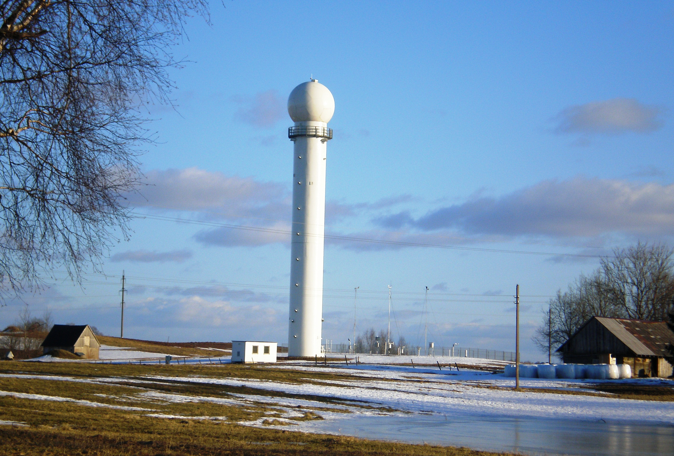 Laukuva meteorologic radar station, Šilalė district, Lithuania